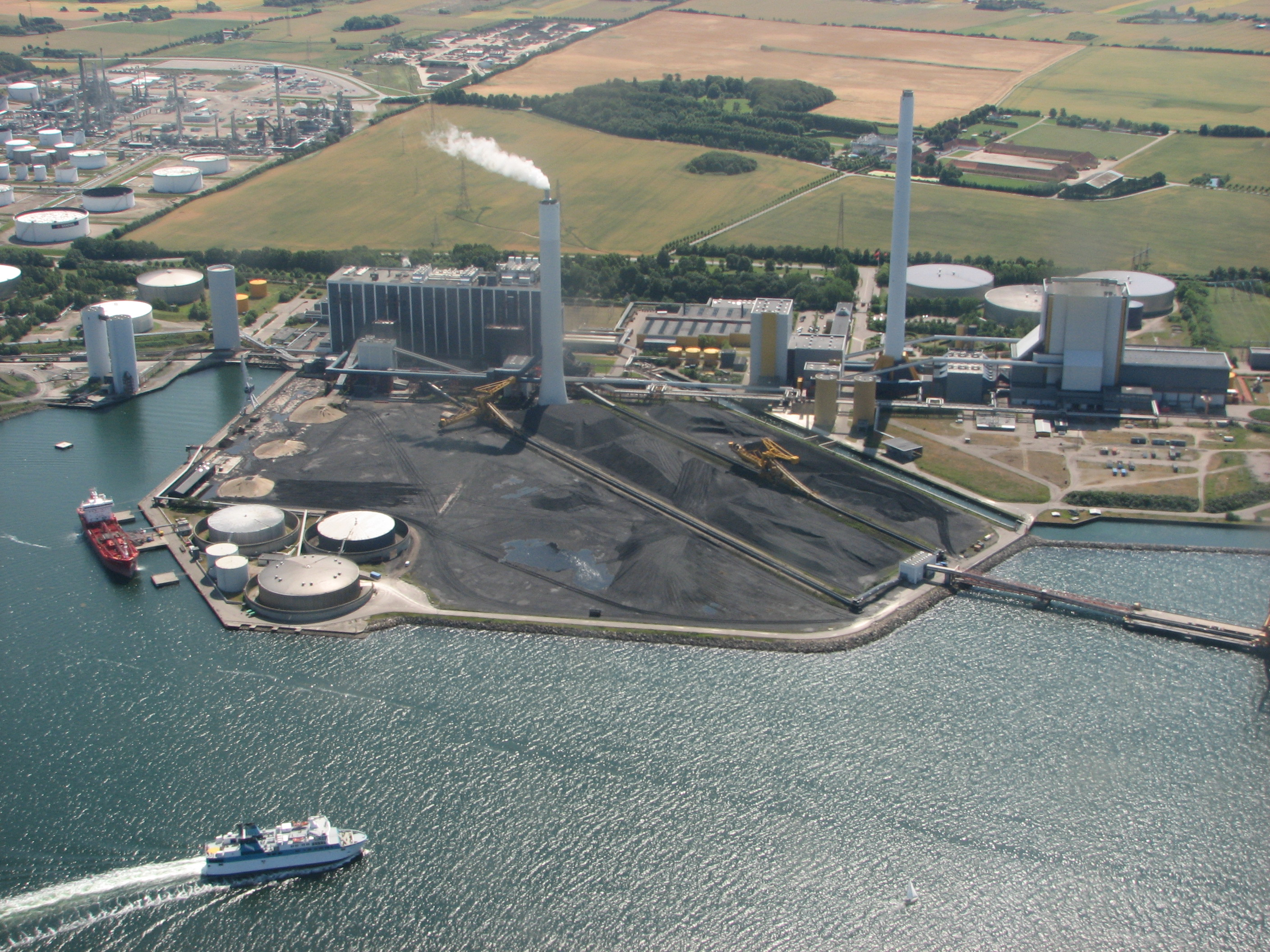 The power plant Asnæsværket in Kalundborg, West Zealand, Denmark.